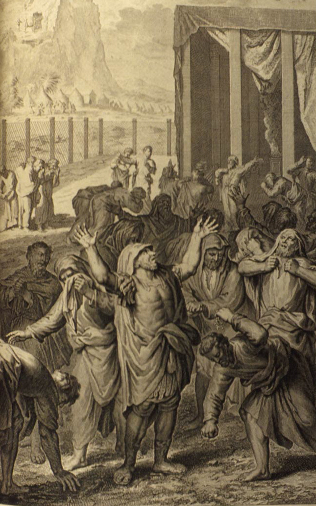 The Israelites Mourn for Moses, as in Deuteronomy 34:8; illustration from the 1728 Figures de la Bible; illustrated by Gerard Hoet (1648-1733) and others, and published by P. de Hondt in The Hague; image courtesy Bizzell Bible Collection, University of Oklahoma Libraries